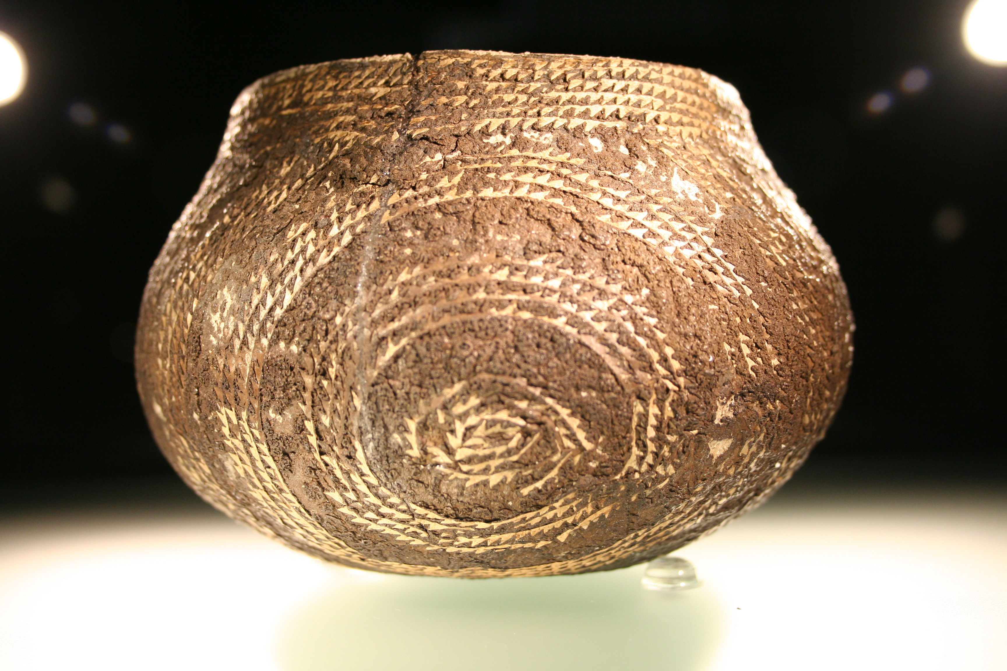 Broken pot (kumpf) that was patched and decorated with pitch and bark, found inside a Linear Pottery culture well at Scheuditz-Altscherbitz